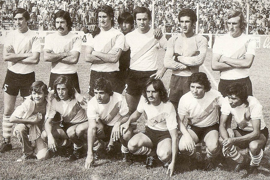 Temperley team of 1974 which won the championship and promoted to first division.